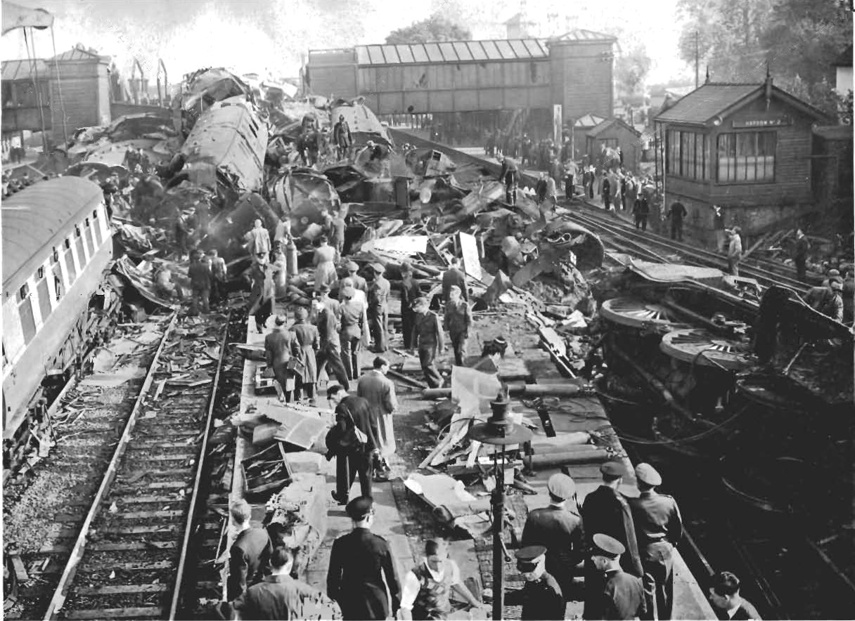 General View of Wreckage from North after the Harrow and Wealdstone train crash on 8 October 1952